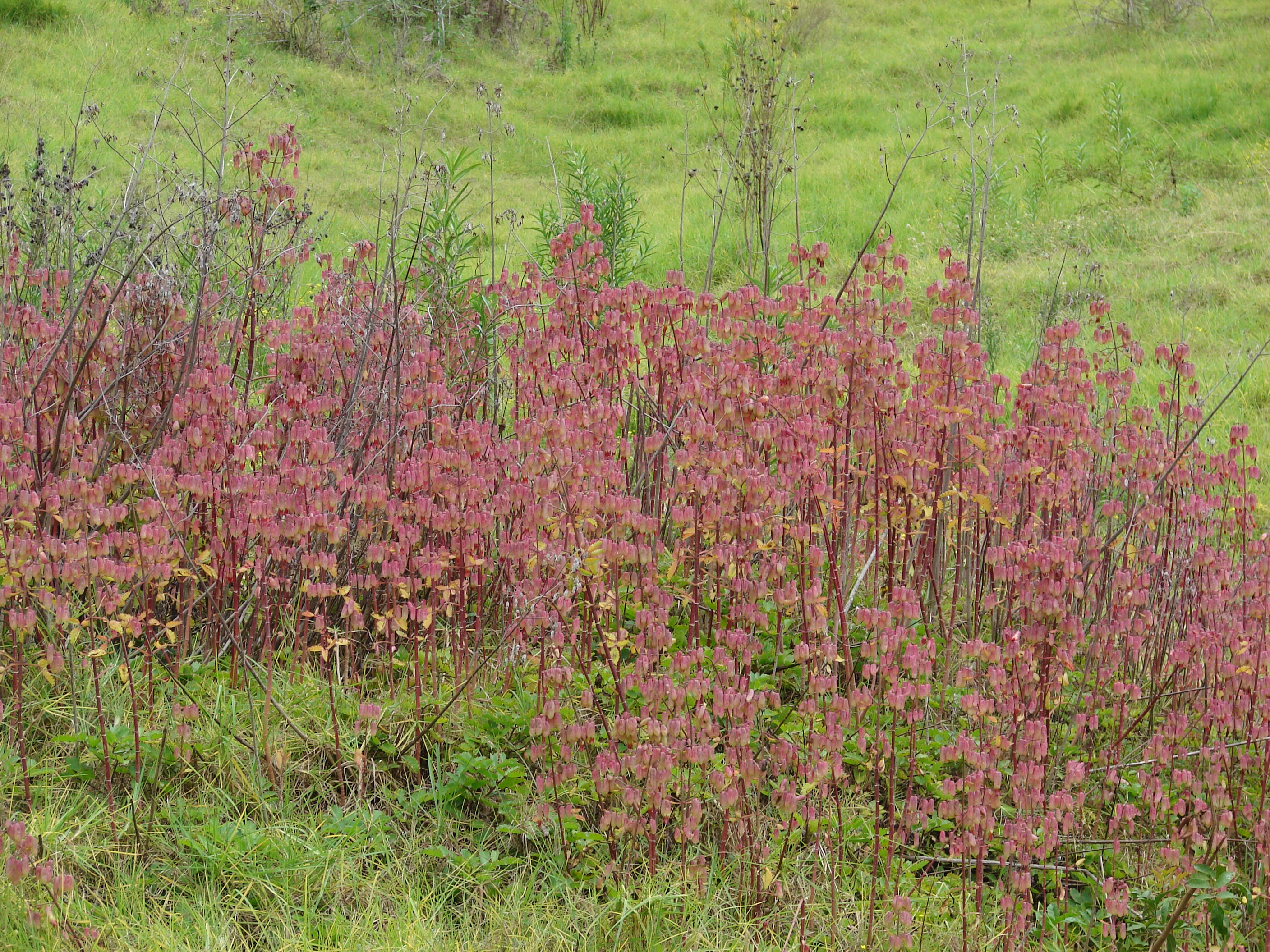 Kalanchoe pinnata (flowering habit). Location: Maui, Kula